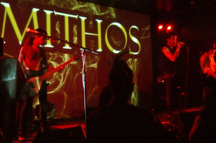 Noctivagus at Mithos festival